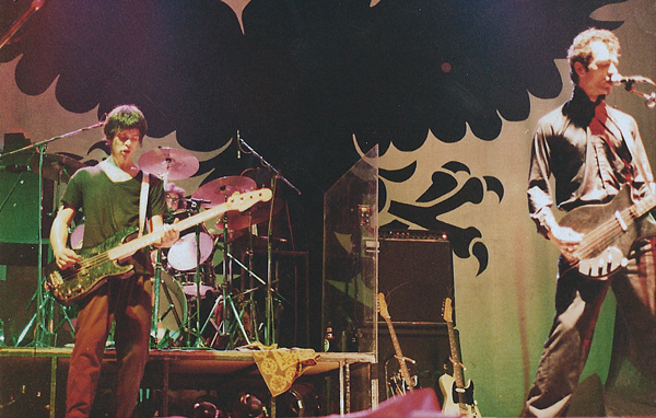 The Stranglers in concert at Le Palace, Paris, 1979